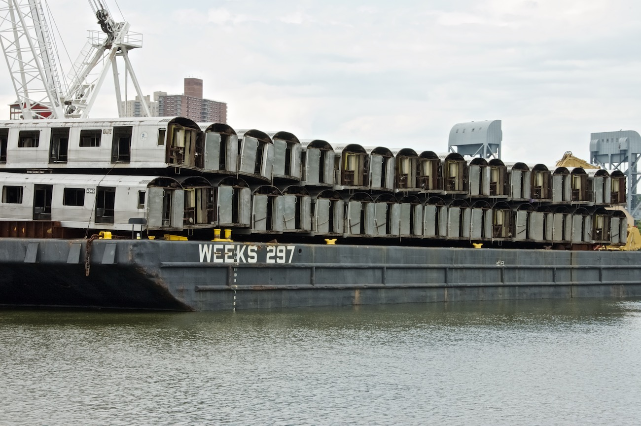 Retired New York City subway cars are transported to the ocean where they will be dropped into the water to create an artificial reef, which will provide shelter for marine life.